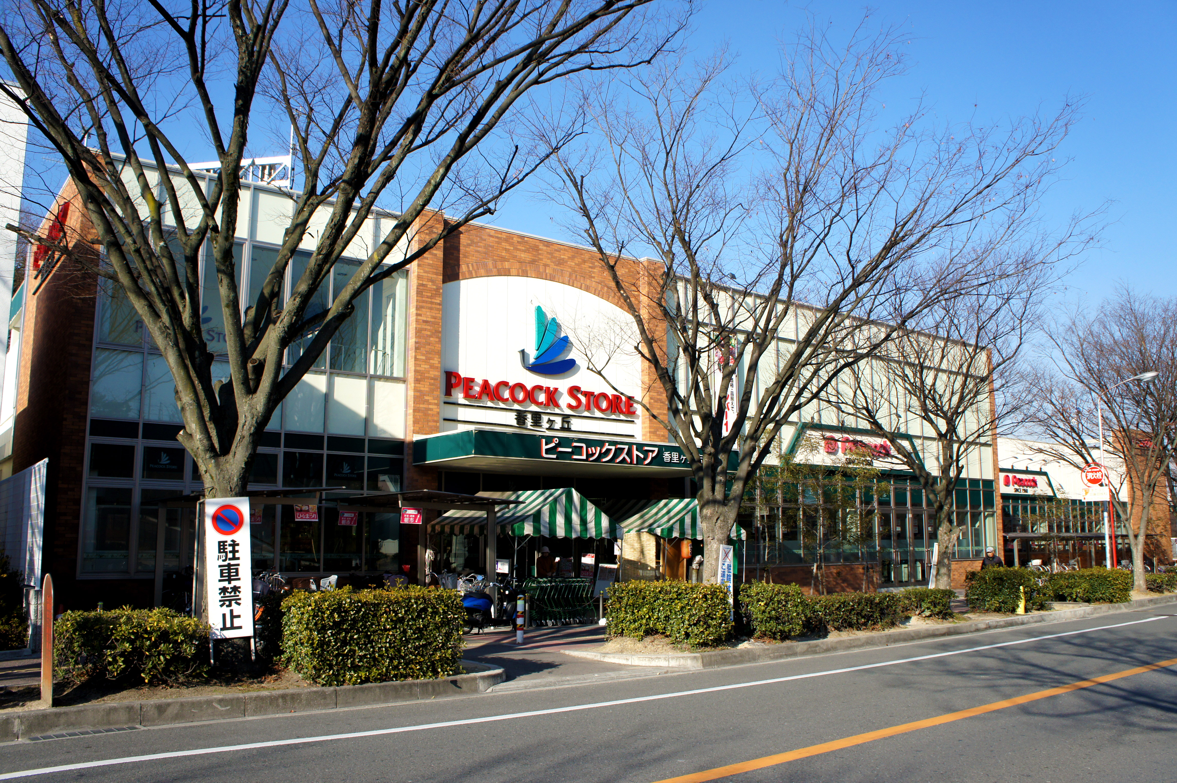 Peacock Store Kourigaoka, 4-2-1 Kourigaoka Hirakata-City Osaka Japan.